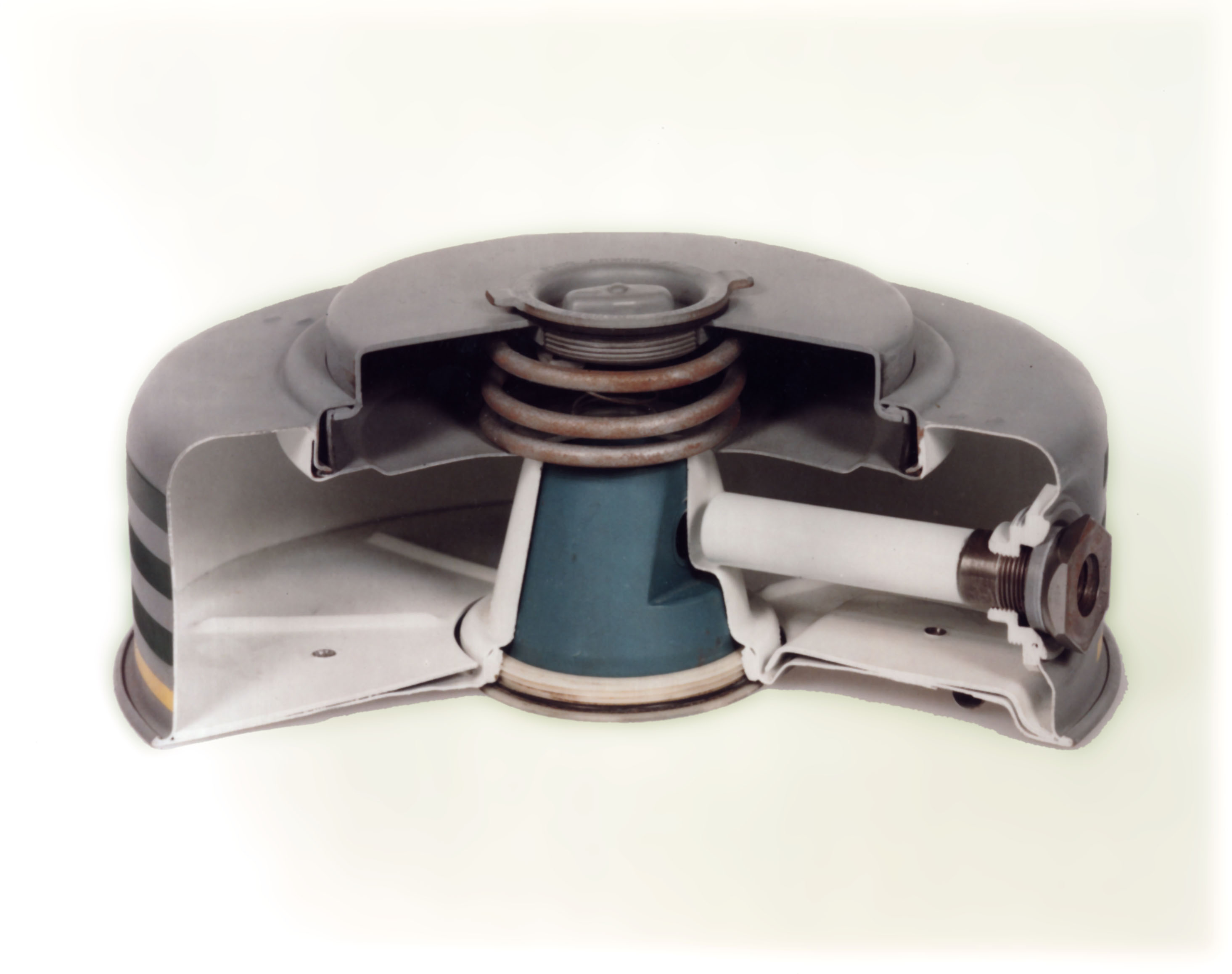 U.S. M23 Landmine cut